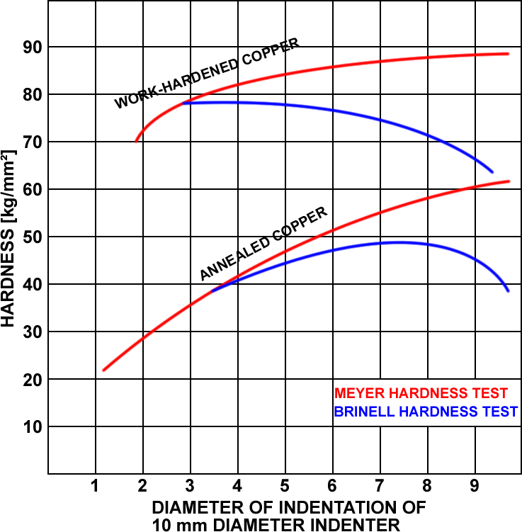 A graph that shows the major differences between the Brinell hardness test and the Meyer hardness test. Based on graph from Tabor, David (2000) The Hardness of Metals[1], Oxford University Press, ISBN 0198507763, page 12.